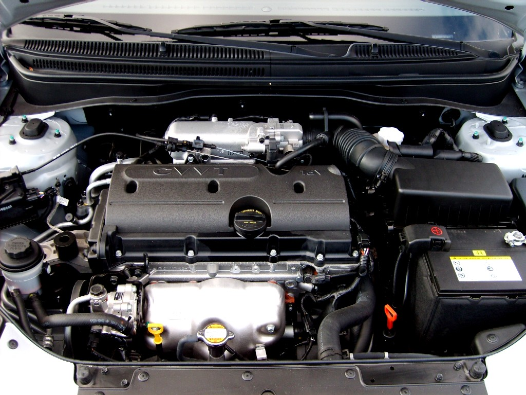 Kia Rio 1.6-liter Alpha II engine, photgrahped in the United States.